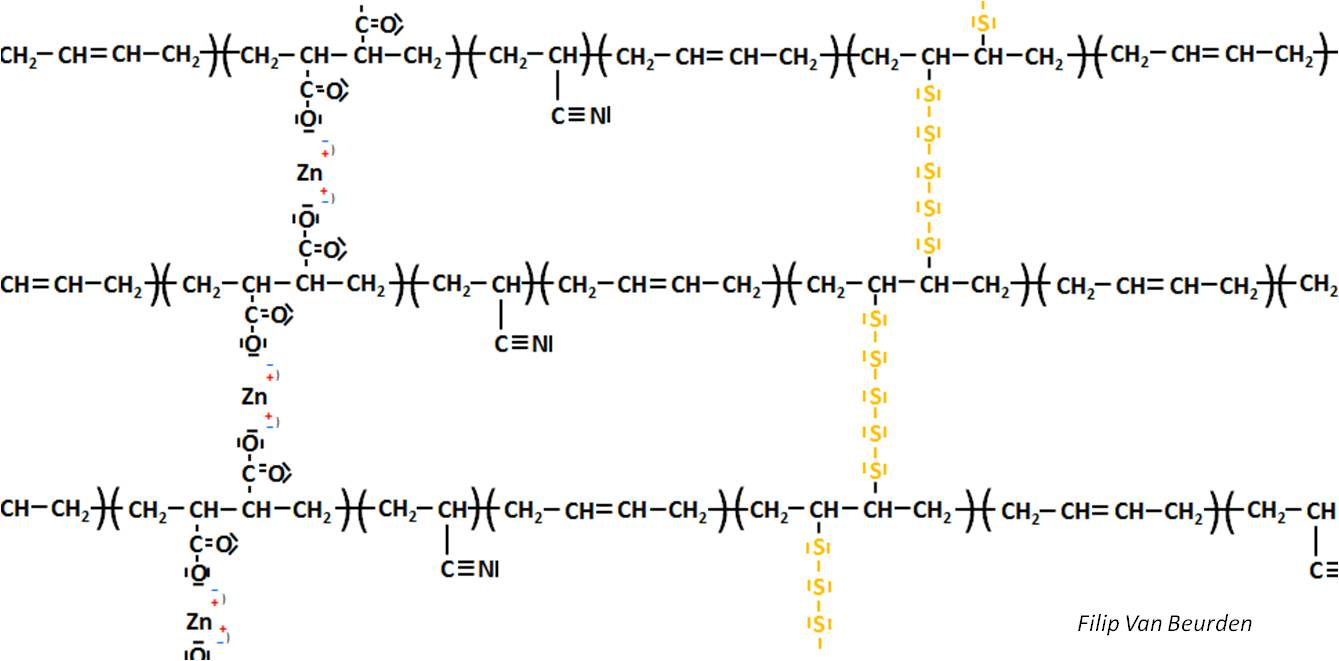 XNBR strings with Carboxylgroups and Zinc++ ionic links along the sulfur bridges of the vulcanisation